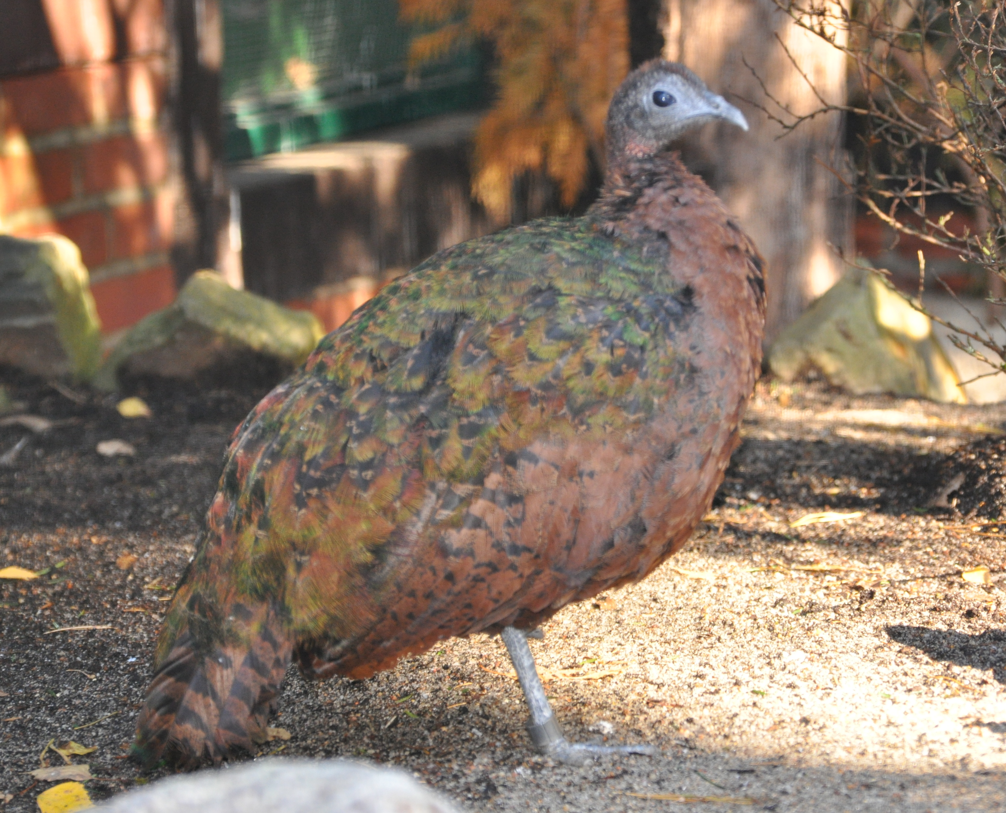 Congo Peacock(Afropavo congensis) in the Walsrode Bird Park, Germany.